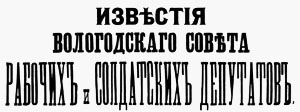 Title of the newspaper "News of the Vologda Soviet of the Workers' and Soldiers' Deputies"